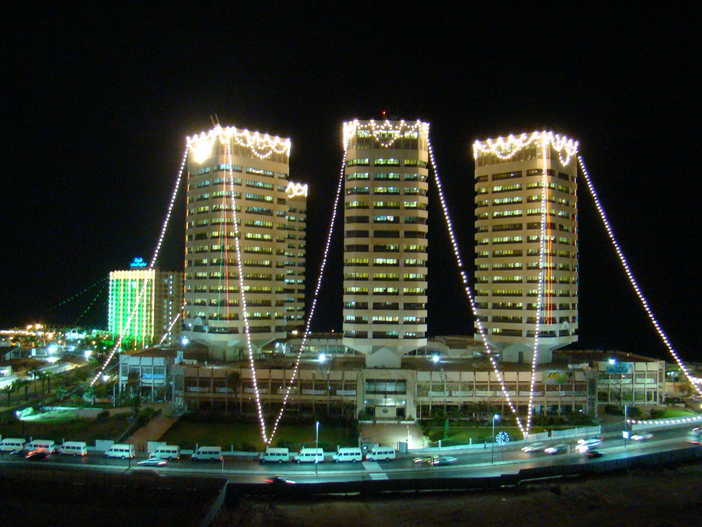 Light show in Tripoli to celebrate the 40th anniversary of Gaddafi's revolution